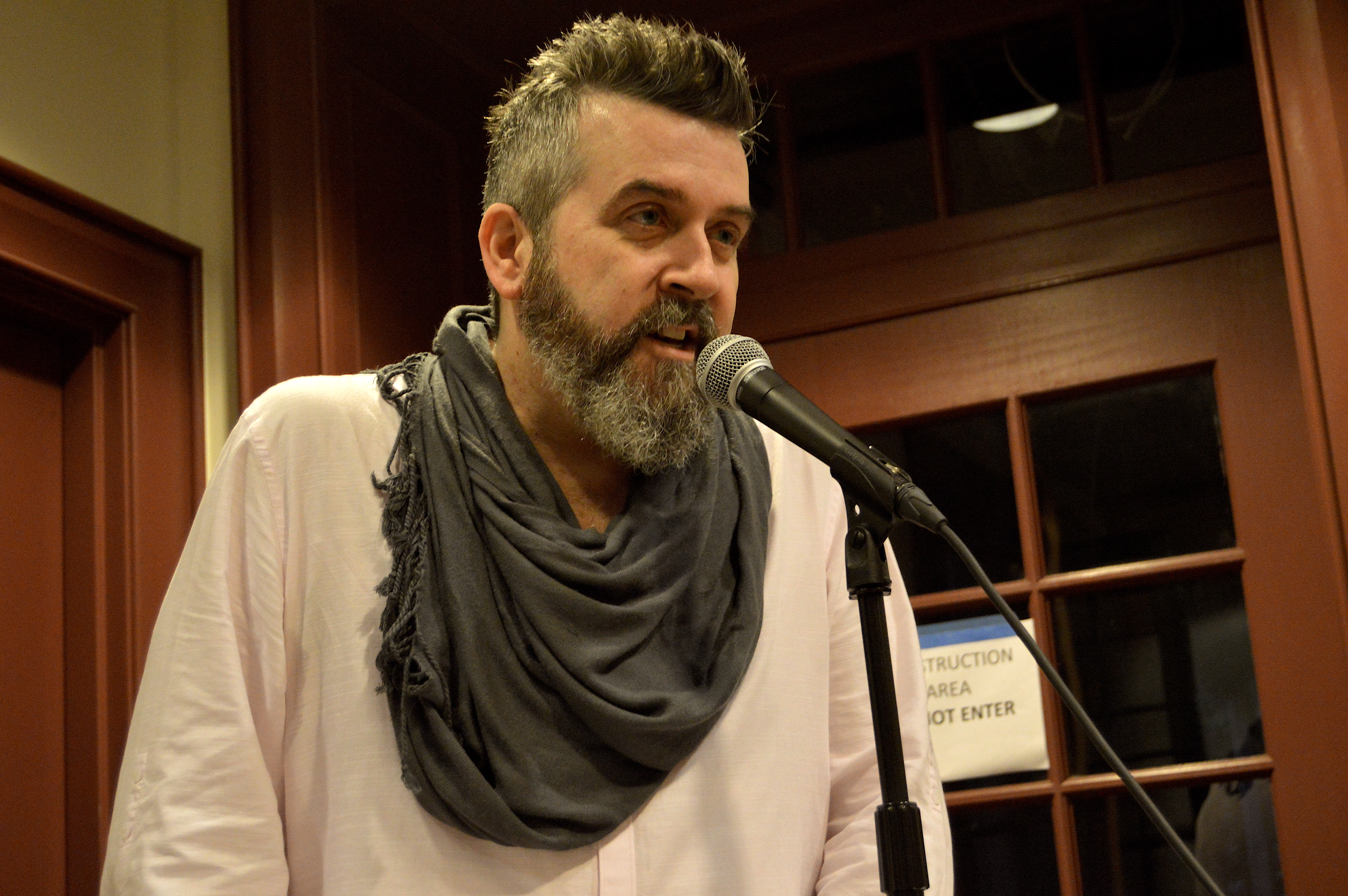 Frank Sherlock reads at event for David Bromige at Kelly Writers House University of Pennsylvania 9-25-2018